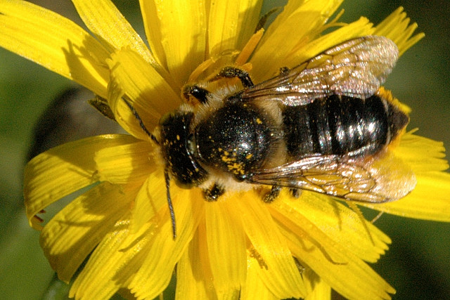 Megachile centuncularis from Commanster, Belgian High Ardennes .